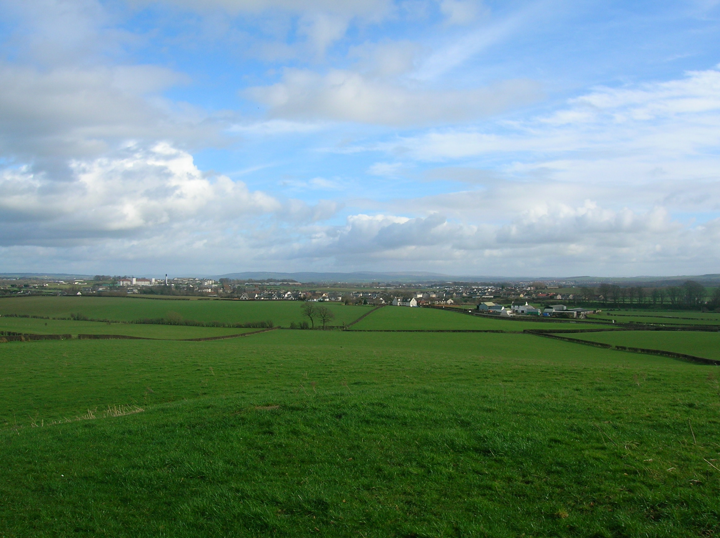 The village of Crosshouse as seen from Thorntoun in East Ayrshire. 2007.